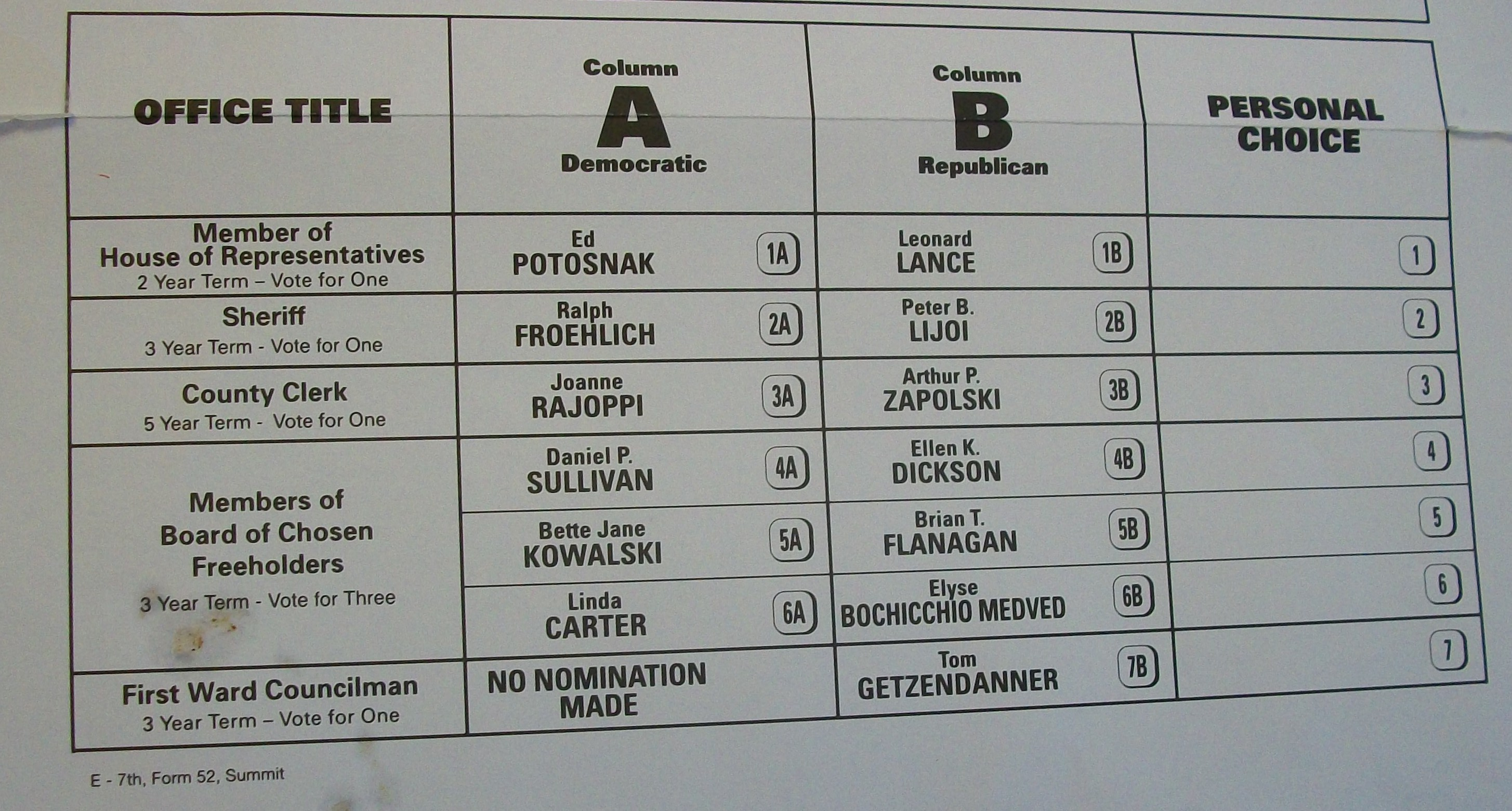 This is a snapshot of the "Official General Election Sample Ballot" from the City of Summit, in Union County, New Jersey, in 2010. It is mailed to registered voters in advance of the election. It shows that there are no third party candidates -- only Democrats and Republicans -. In a two-party system, voters mostly have a choice between only two parties, since third party candidates are restricted from the ballot and are presumed not to win even if on the ballot.